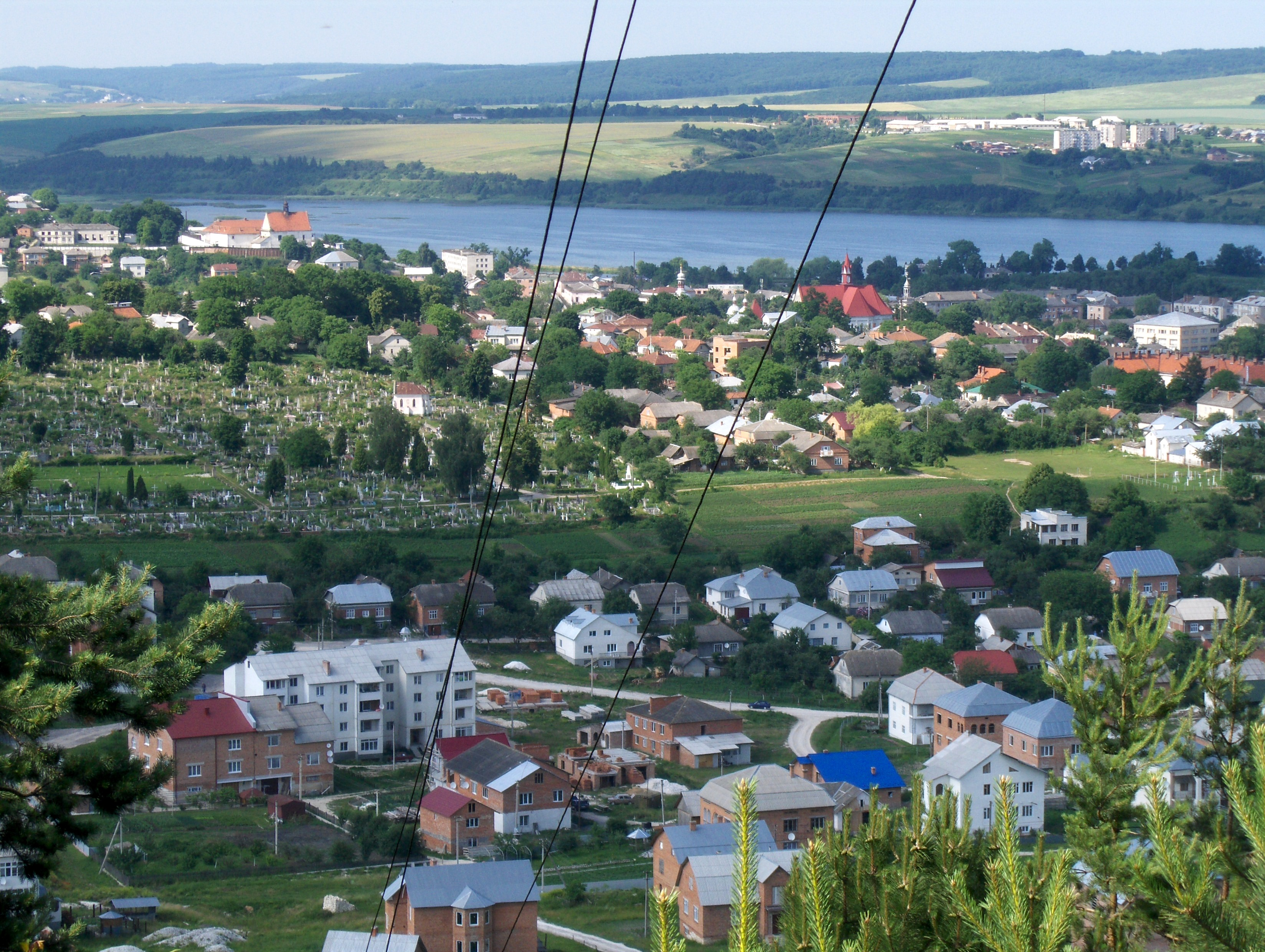 Panorama over Berezhany, Ternopil oblast, west Ukraine.